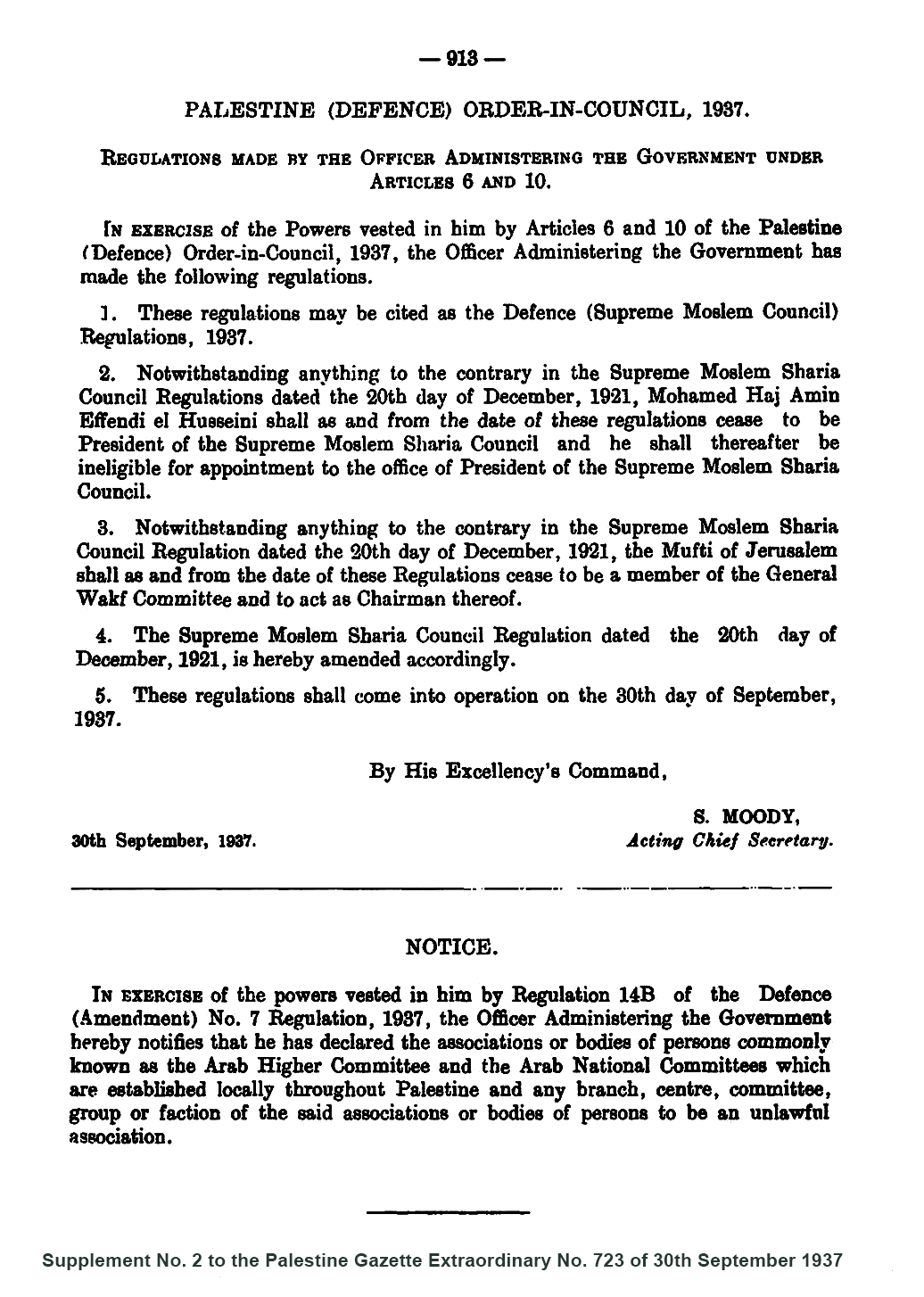 On September 30, 1937, Haj Amin al-Husseini, Mufti of Jerusalem, was removed from his post as President of the Supreme Muslim Sharia Council and the General Wakf Committee. On the same day, the Arab Higher Committee and the Arab National Committee were declared illegal.